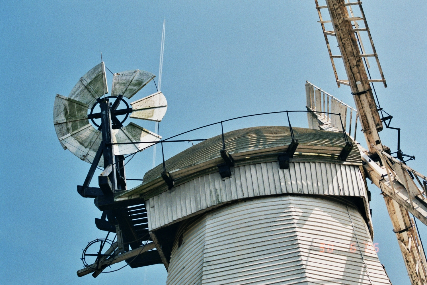 author: Dave Taskis (me), location: Upminster Havering UK, camera: Canon EOS620 with 300mm zoom lens, film: 200 ASA Fuji Superia, date: 30 June 2006.